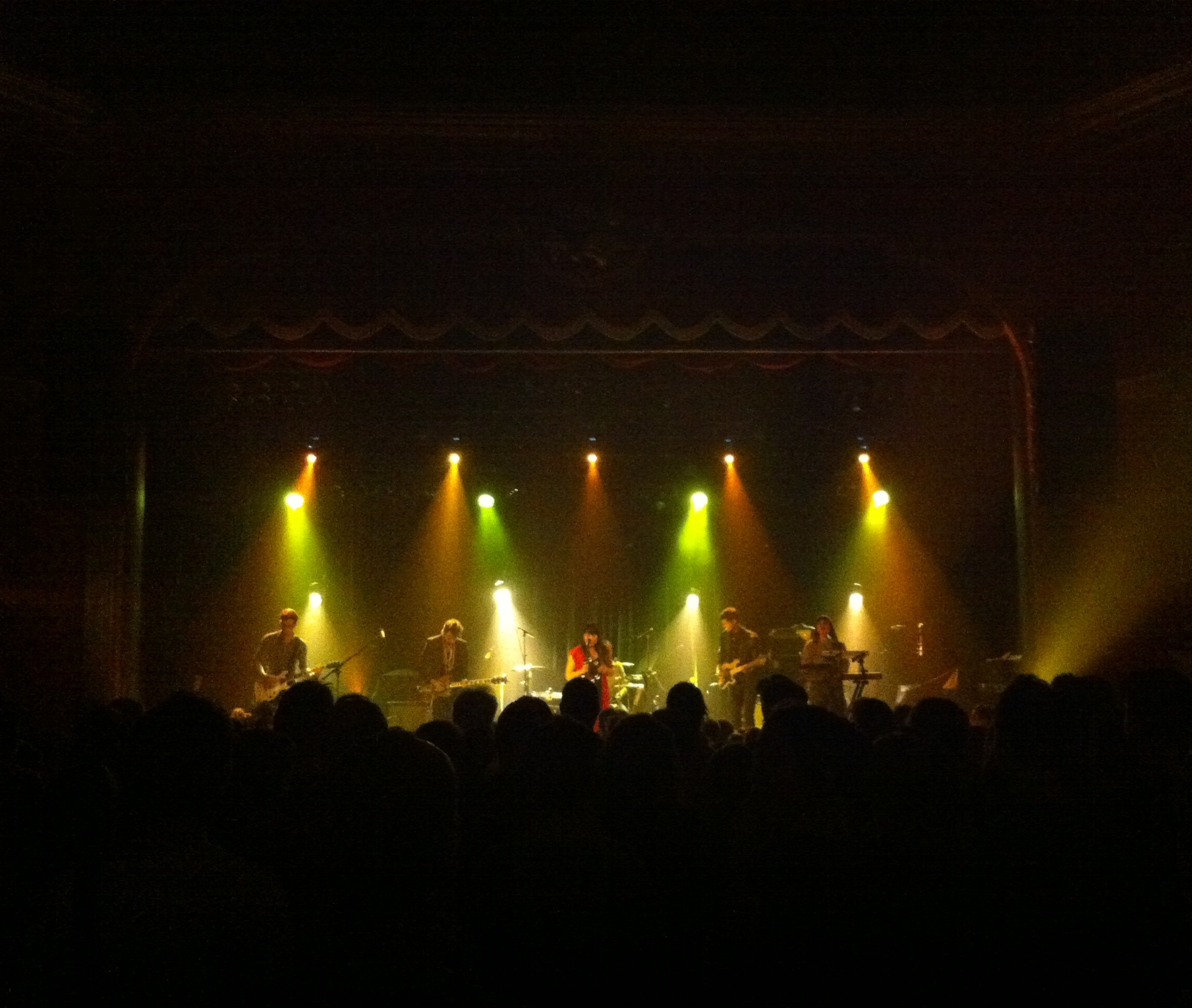 The Belle Game opening for Bahamas and Family of the Year at the Imperial in Quebec City, QC on July 11th, 2013.